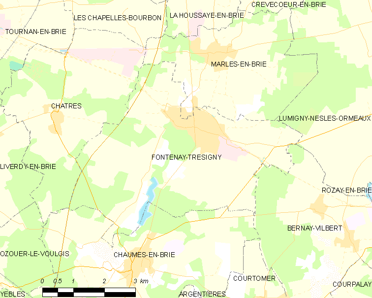 Map of French municipality Fontenay-Trésigny